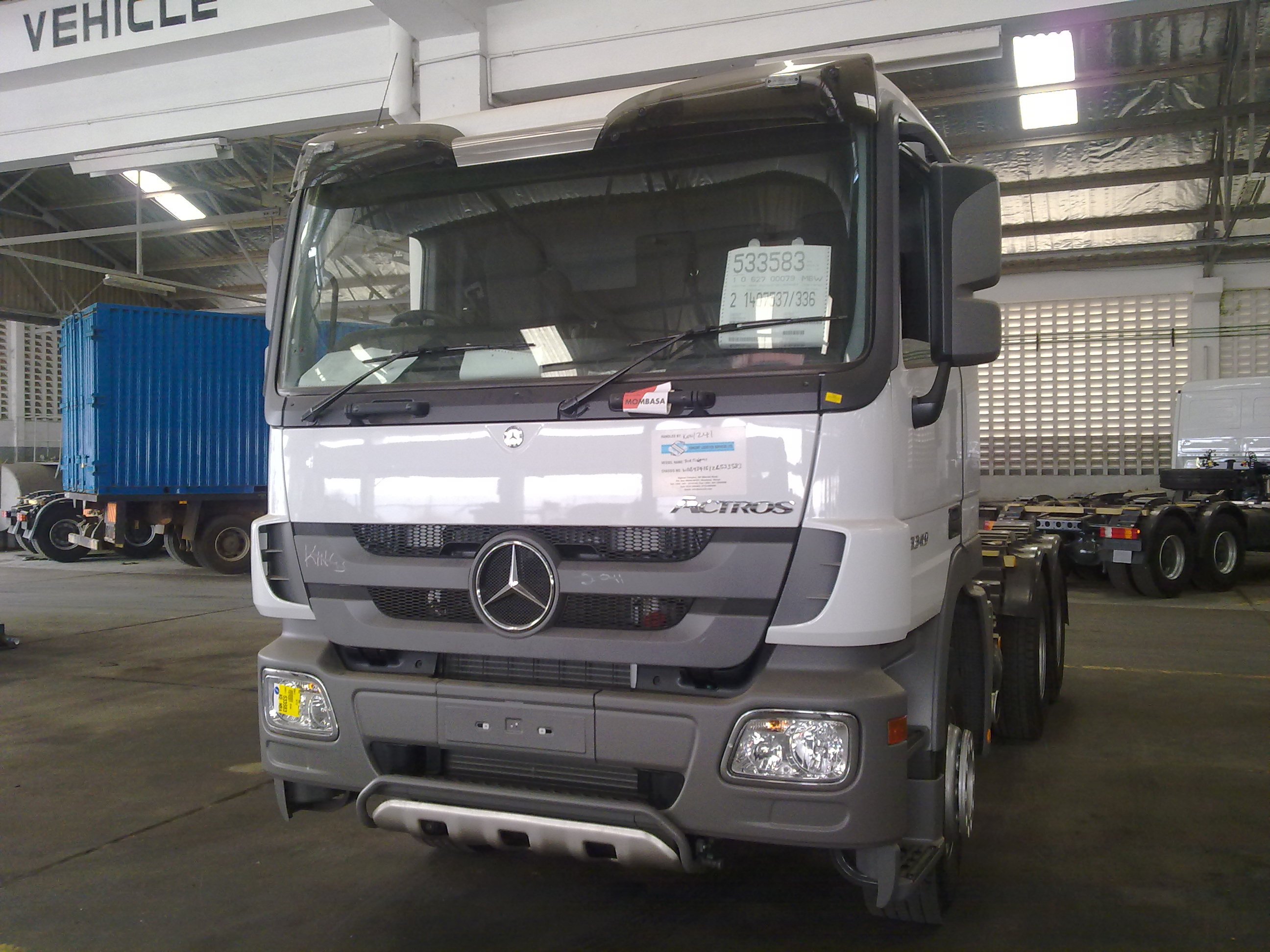 2010 Mercedes-Benz Actros 3340.